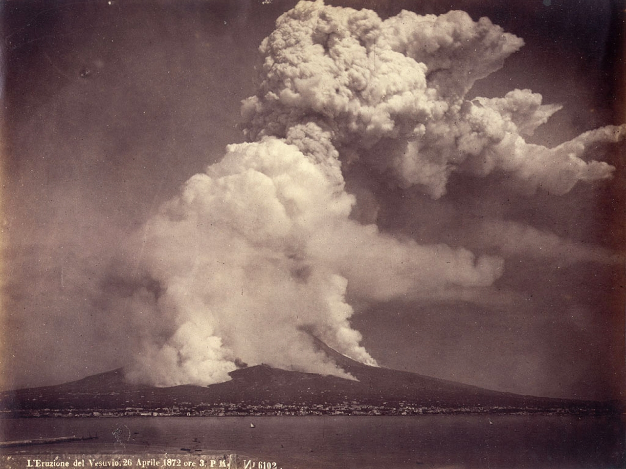 Giorgio Sommer (1834-1914), Eruption of Vesuvius on April 26 1872, at 3 p.m.", as seen from Naples. Catalogue number: 6102.